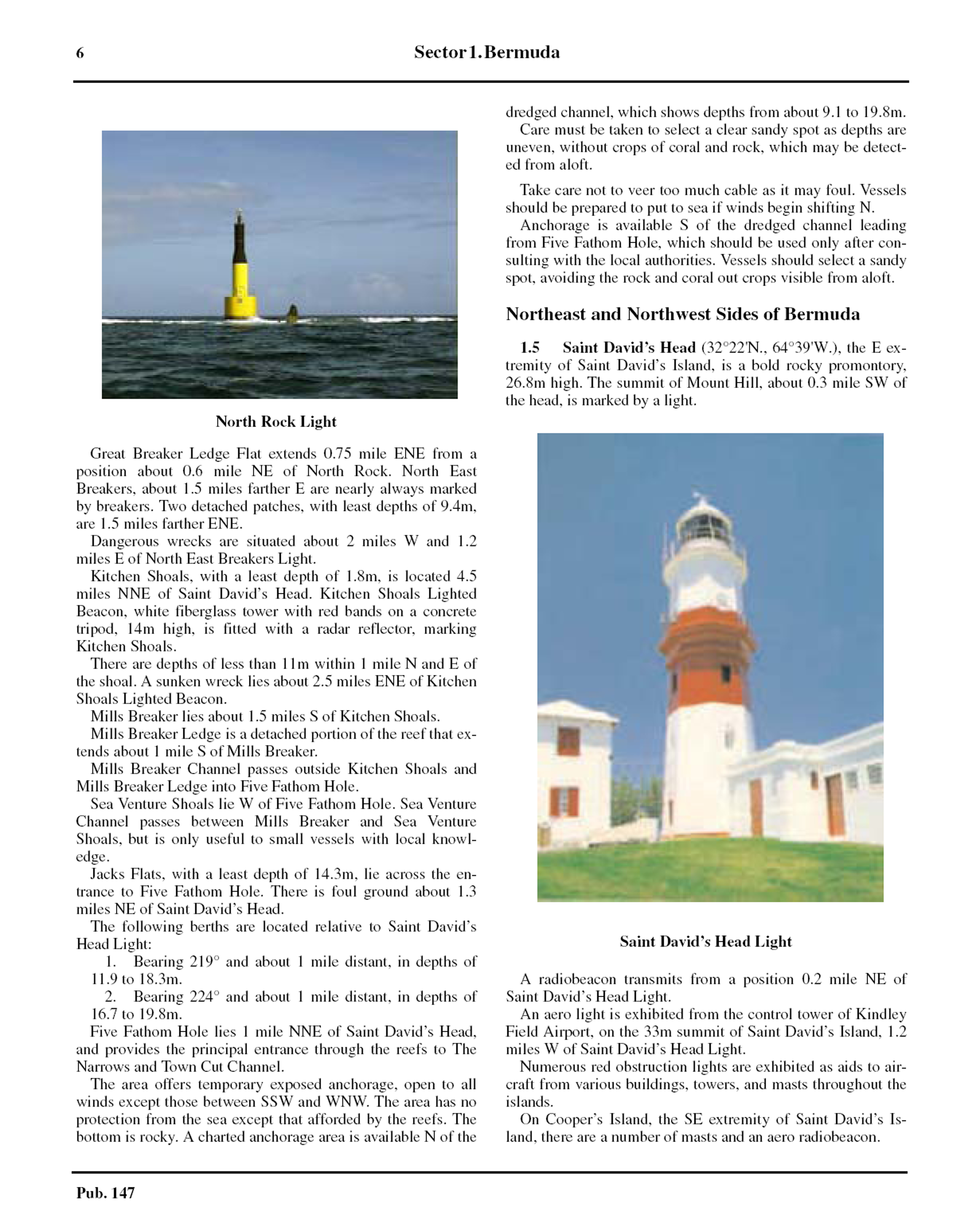 Publication SAILING DIRECTIONS ENROUTE - Caribbean Sea - Vol. 1. - Page Nº 6.